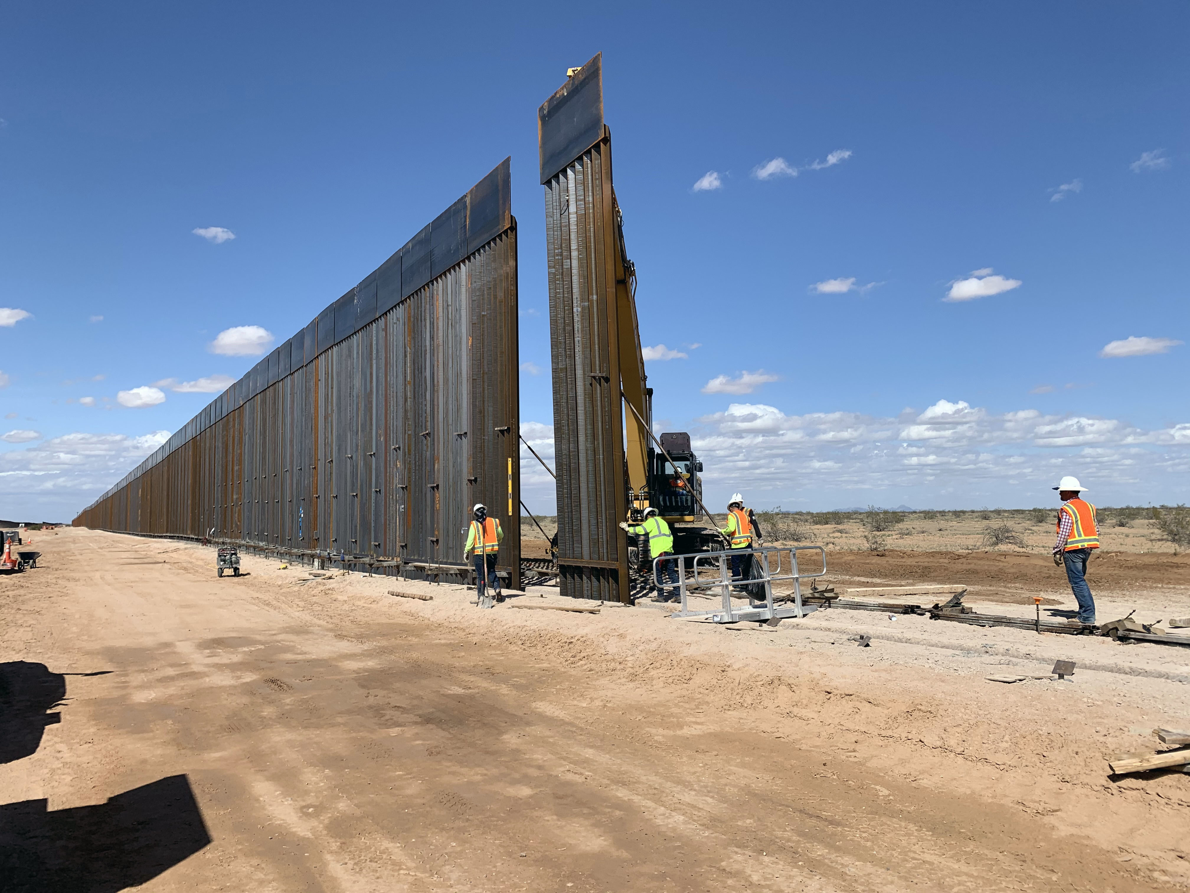 Crews installing three-ton, 30-foot barrier at the Barry M. Goldwater Range along the US-Mexico border near Yuma, Arizona